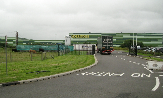 Not that way, Eddie! Eddie Stobart's driver didn't see or didn't understand the sign by the southbound A38 saying that there is no access to the Morrisons distribution centre from the A38; you need the A39 northeast out of the town.